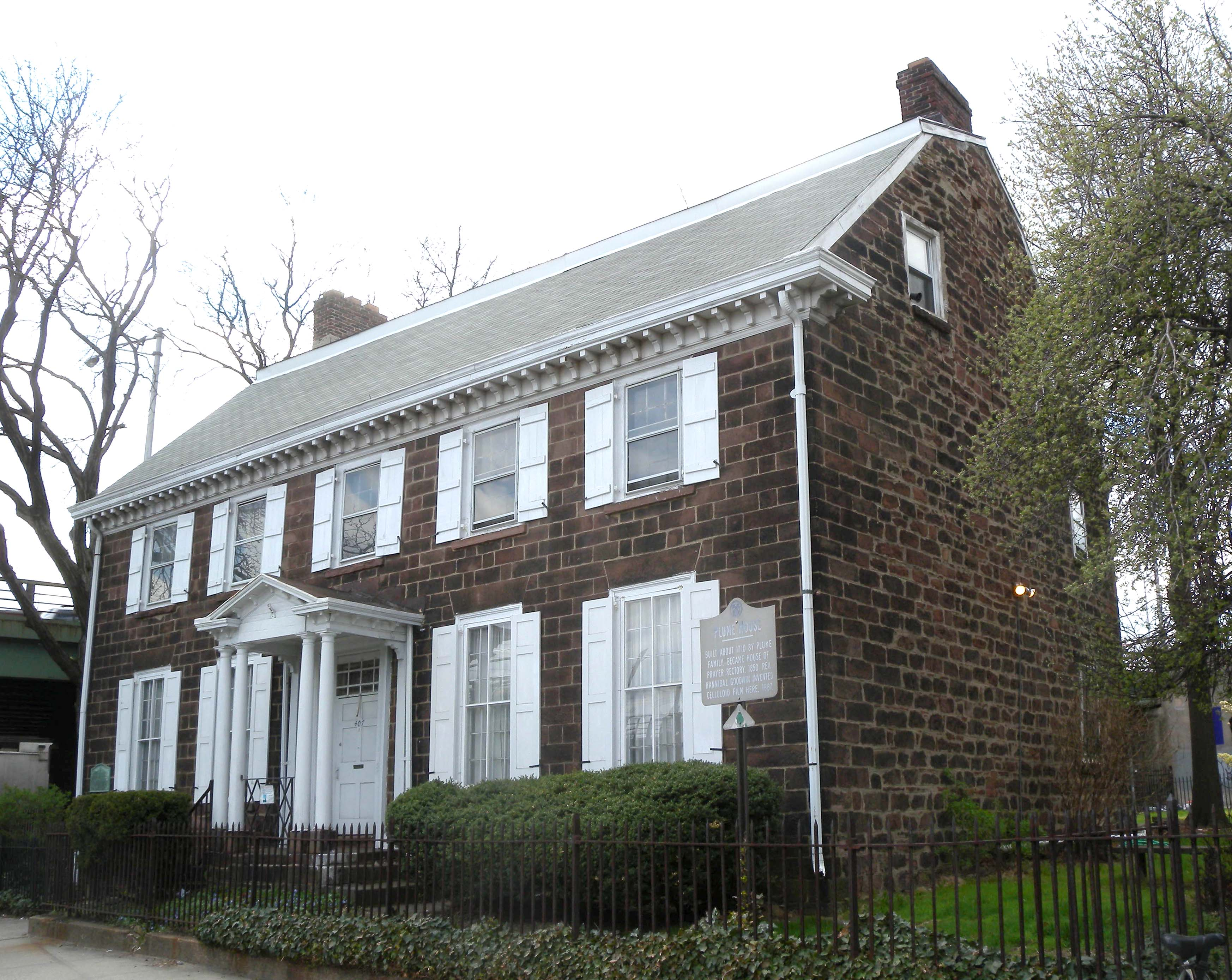 Looking southwest at Plume House rectory of House of Prayer, home of Hannibal Goodwin on a sunny midday.